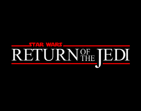 Return of the jedi logo made from 0 on photoshopo cs5